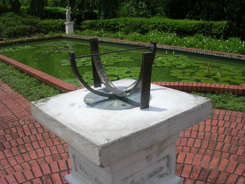 Sundial in the Sundial Garden, Singapore Botanic Gardens. The time is showed by horizontal bar. Hours are numbered on the arc without the bar, in the order 7,6,5,4,3,2,1,12,11,10,9,8,7. The sundial design is adapted to the fact that Singapore is very close to the equator, so the Sun at midday shines from the north in summer and from the south in winter.